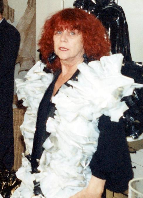 Swedish artist-designer Monica Lundegård in her studio designing costumes for the Mae West Centenary, as released by image creator Lars Jacob ProdPlace: Bellmansgatan 34, Stockholm, Sweden